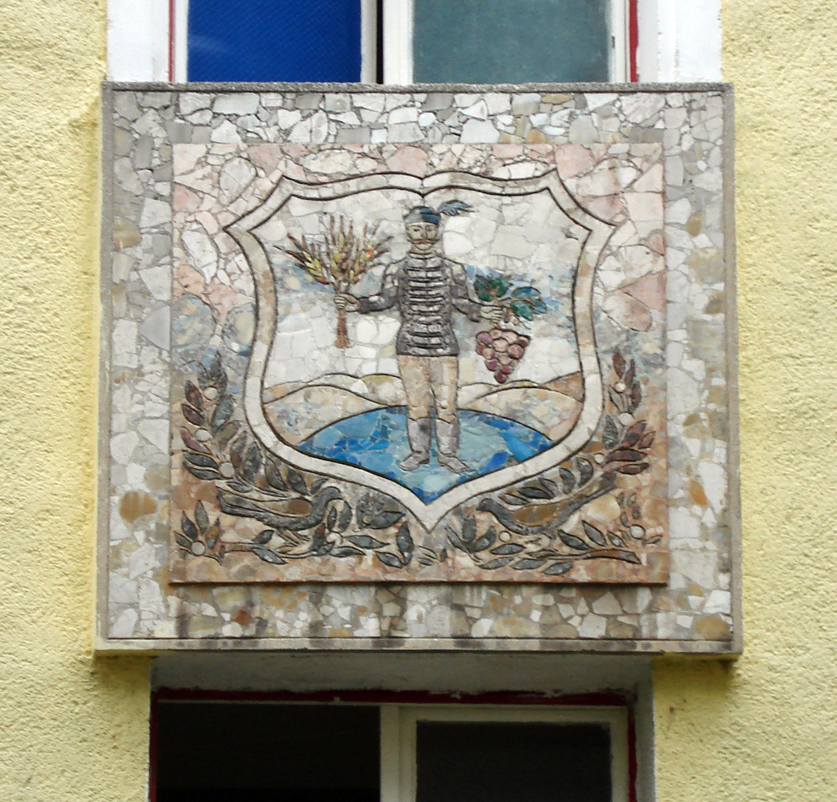 Eszter Mattioni: Miskolc Coat of Arms. Mosaic. Street Szinyei Merse Pál, Miskolc, Diósgyőr, Hungary